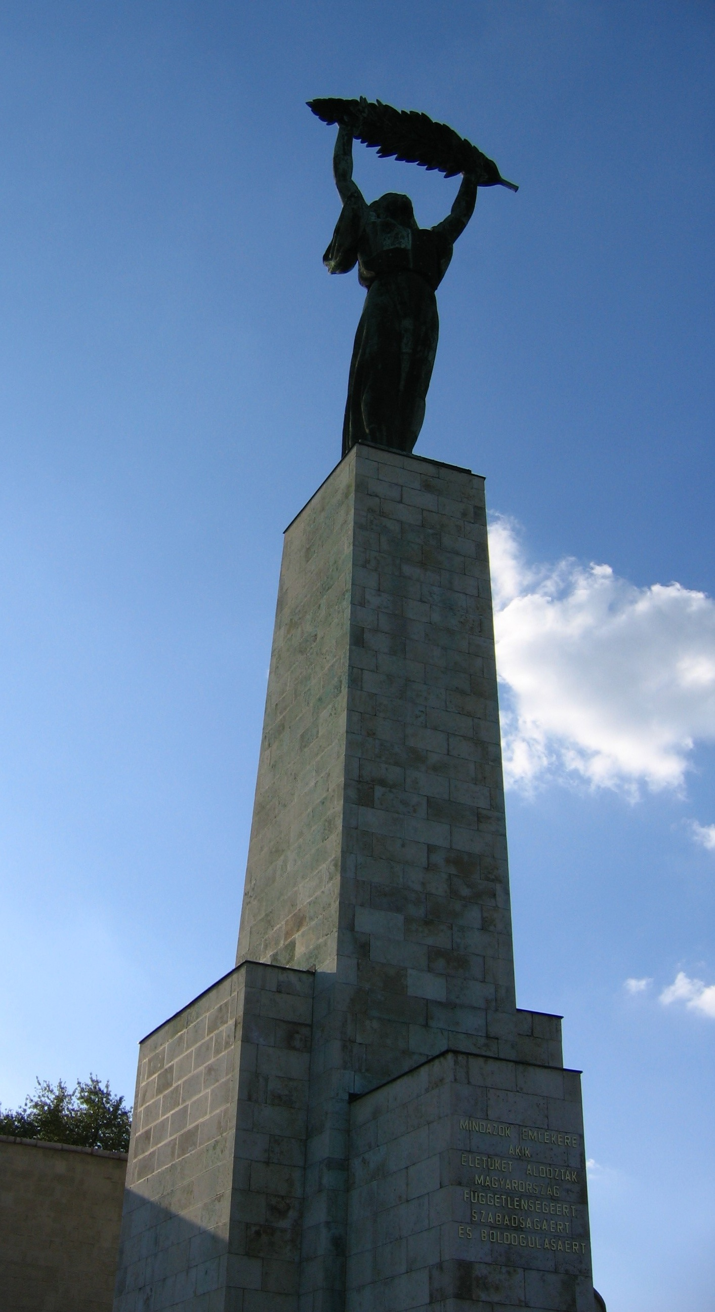 Statue of Liberty, Budapest, Hungary